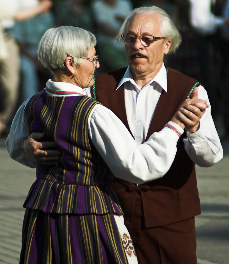 Old man and old woman, traditional Lithuanian dance